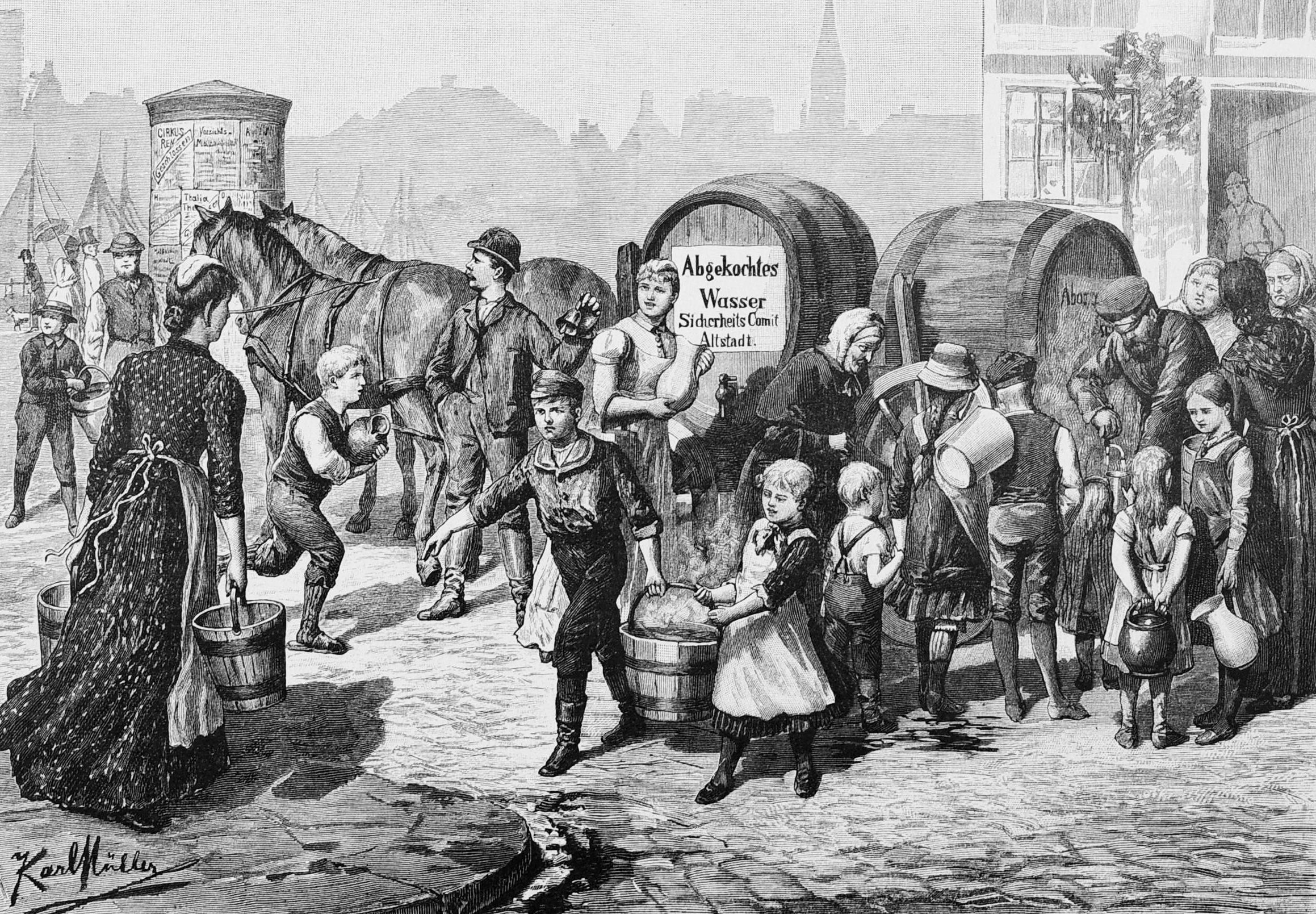 no caption